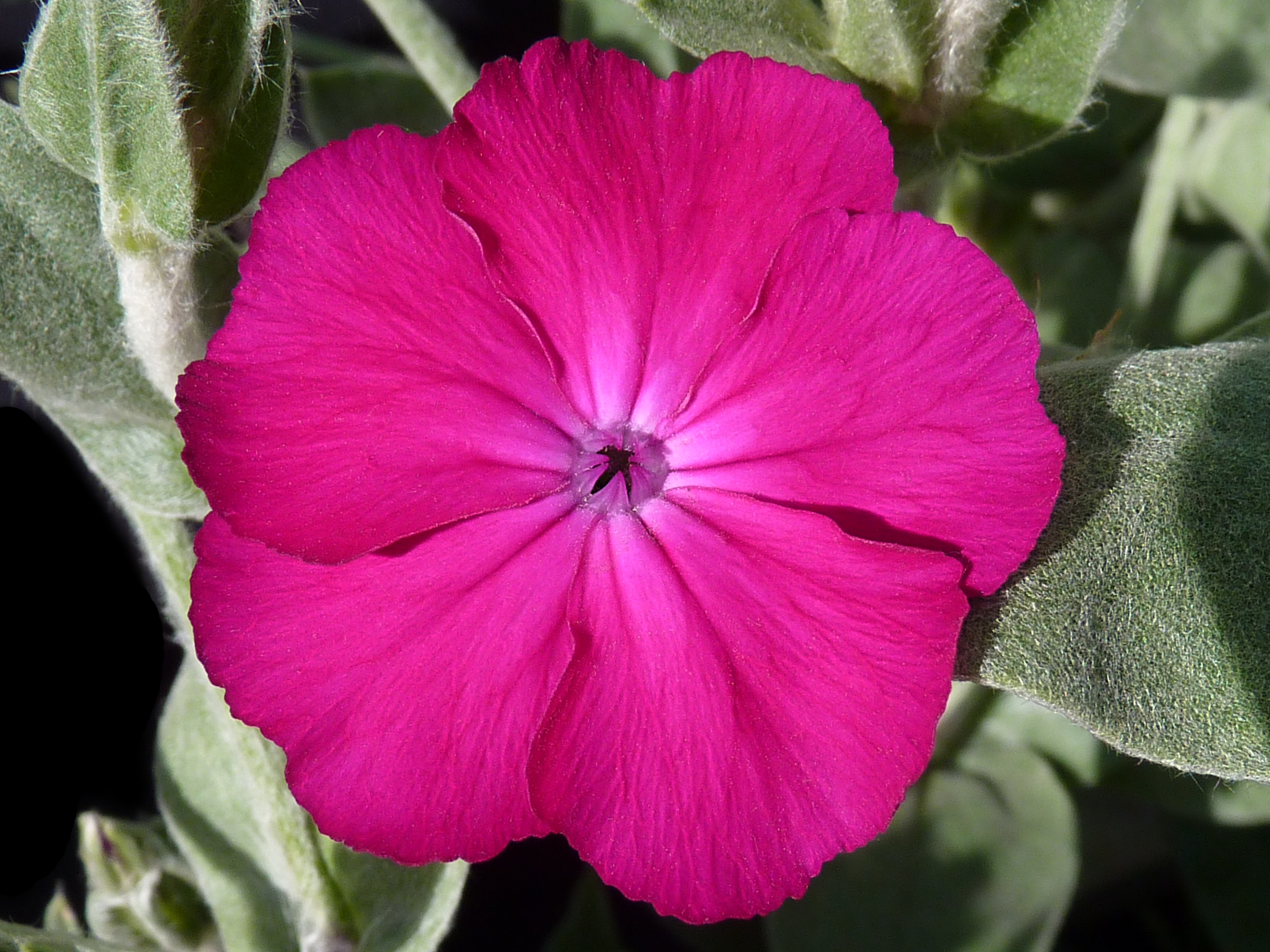 Lychnis coronaria, in a garden in Belgium.